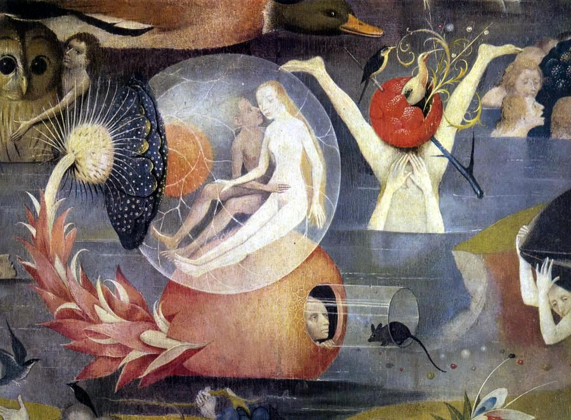 The Garden of Earthly Delights [detail].